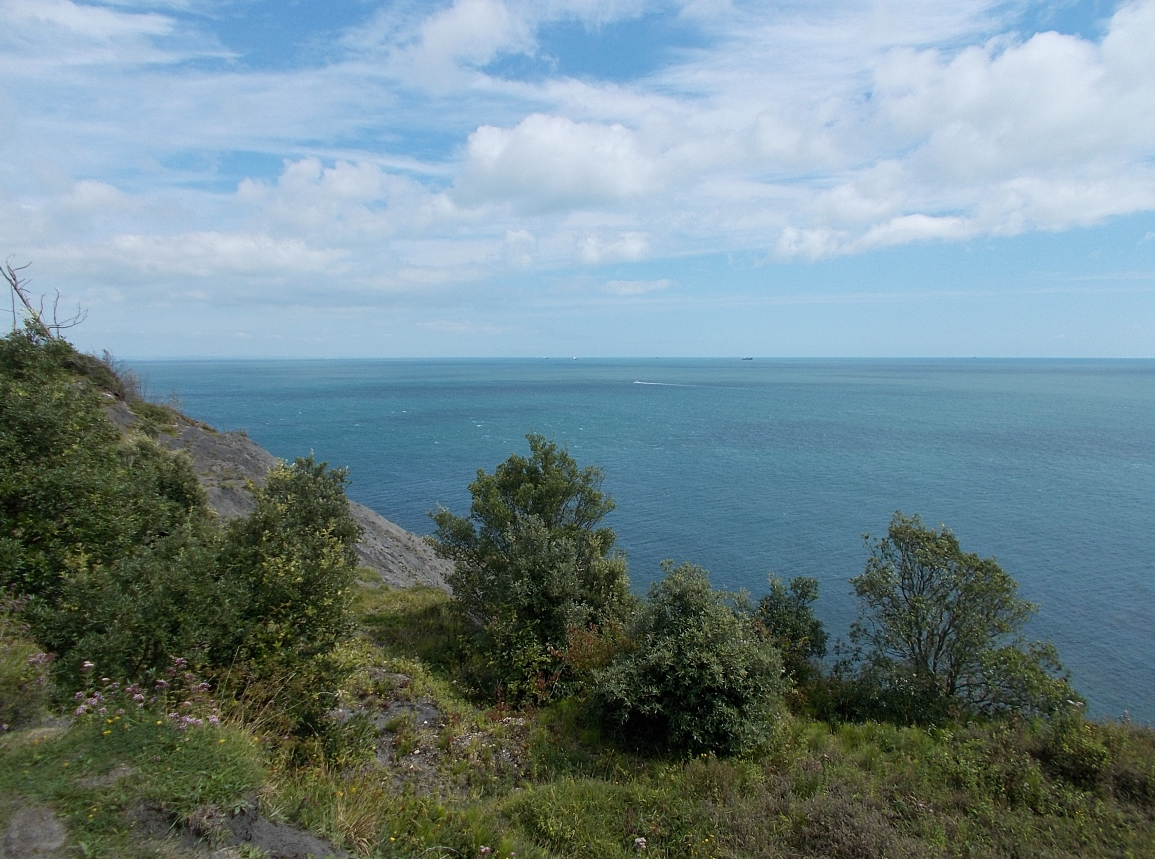 The Landslip, near Bonchurch, Isle of Wight, UK